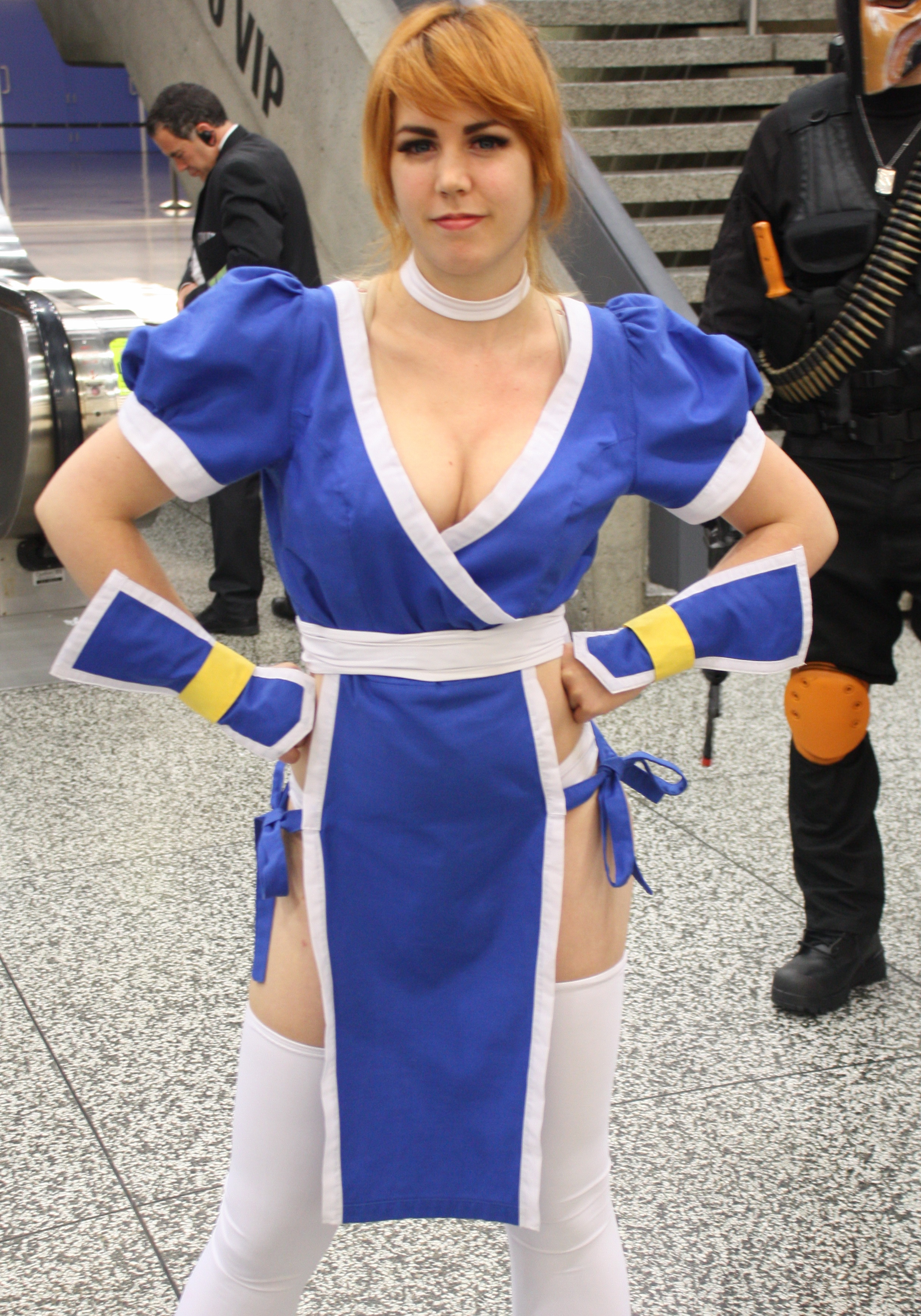 Kasumi (Dead or Alive) at Montreal Comiccon 2014